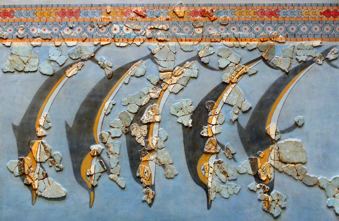 Dolphin frieze from the citalel of Gla, now Collection of Archaeological Museum of Thebes